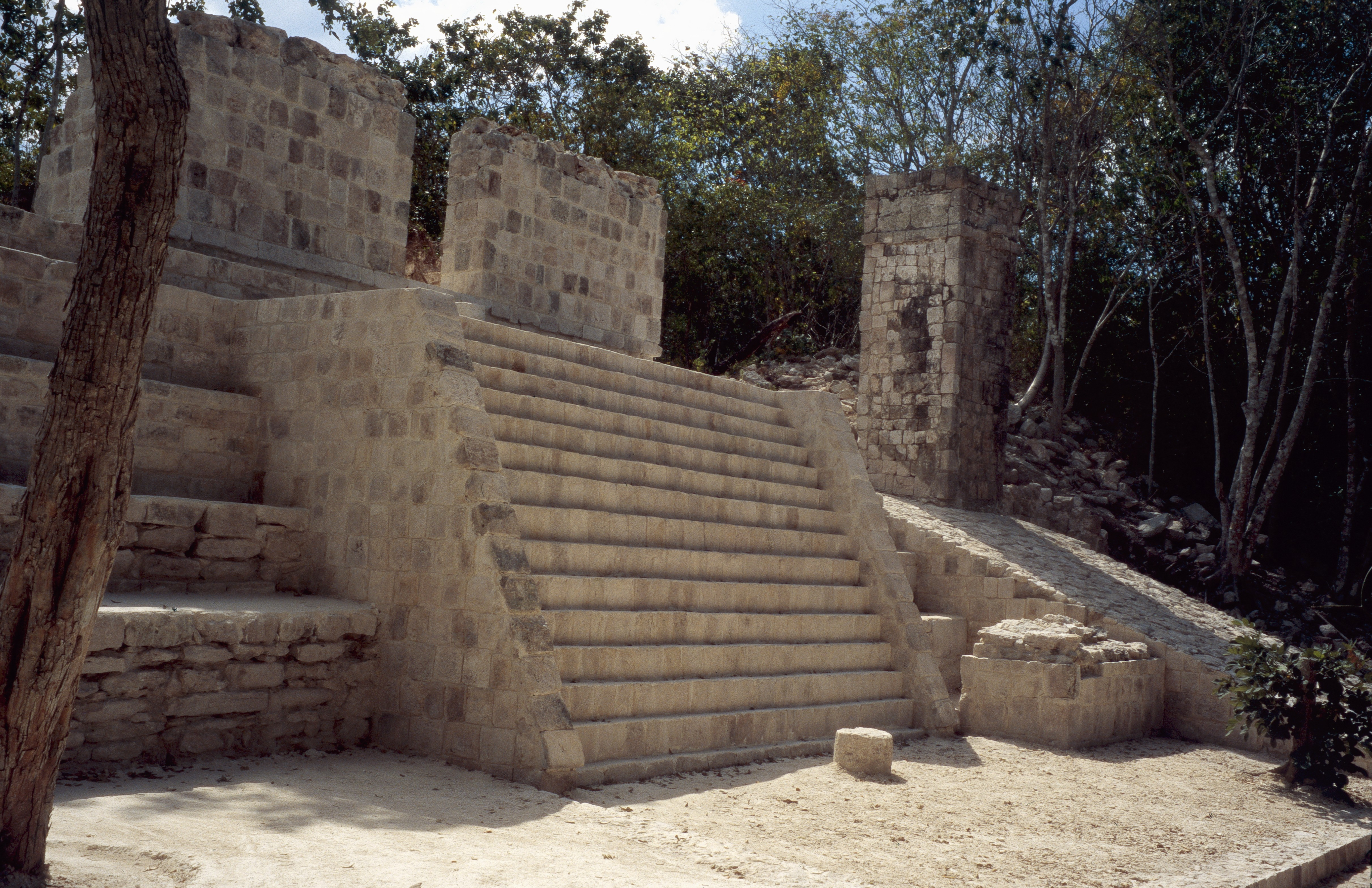 El Tabasqueño, Campeche, Mexico: The massive pillar